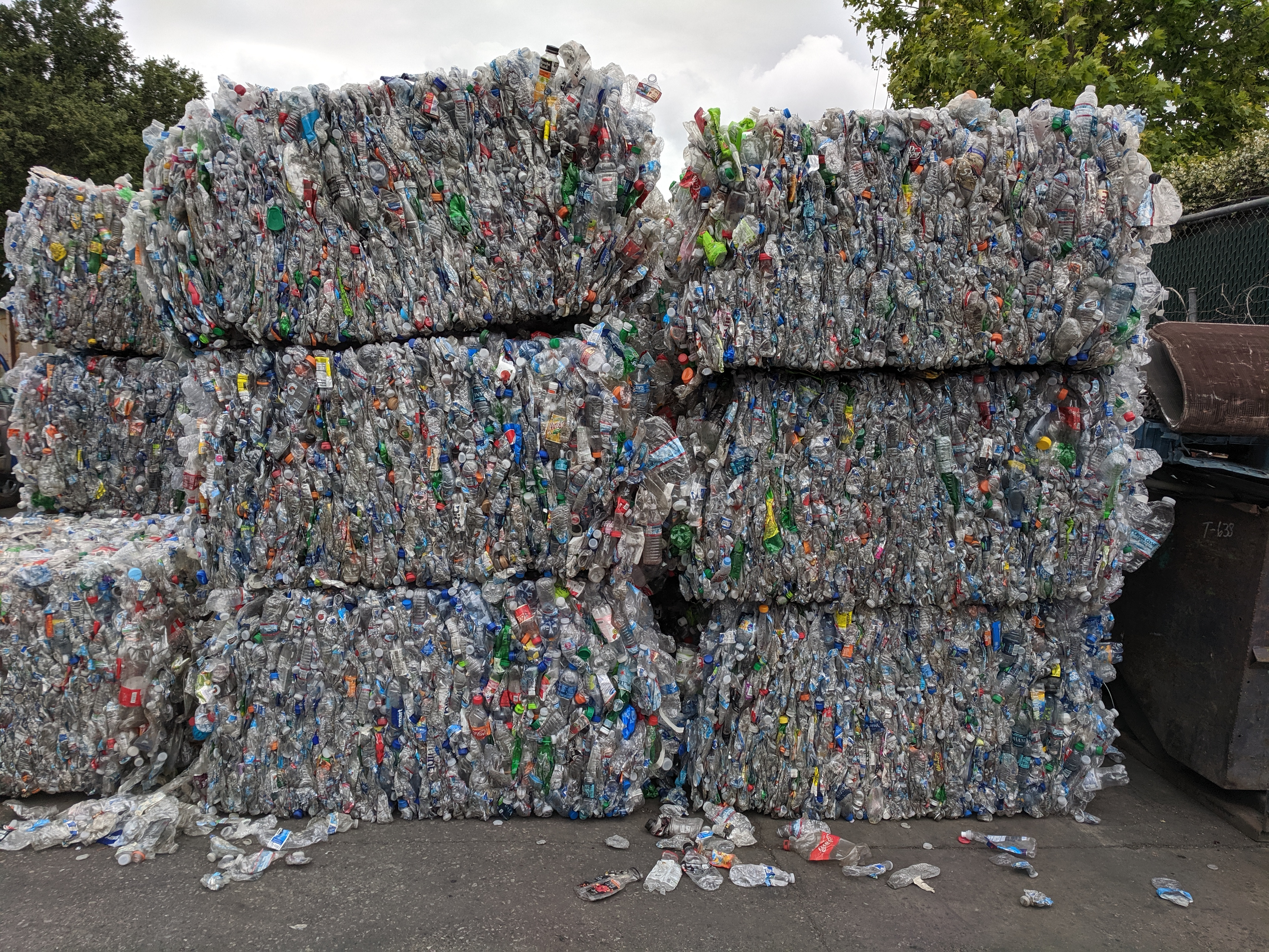 Bales of crushed PET drink bottles at a recycling facility in San Jose, California.